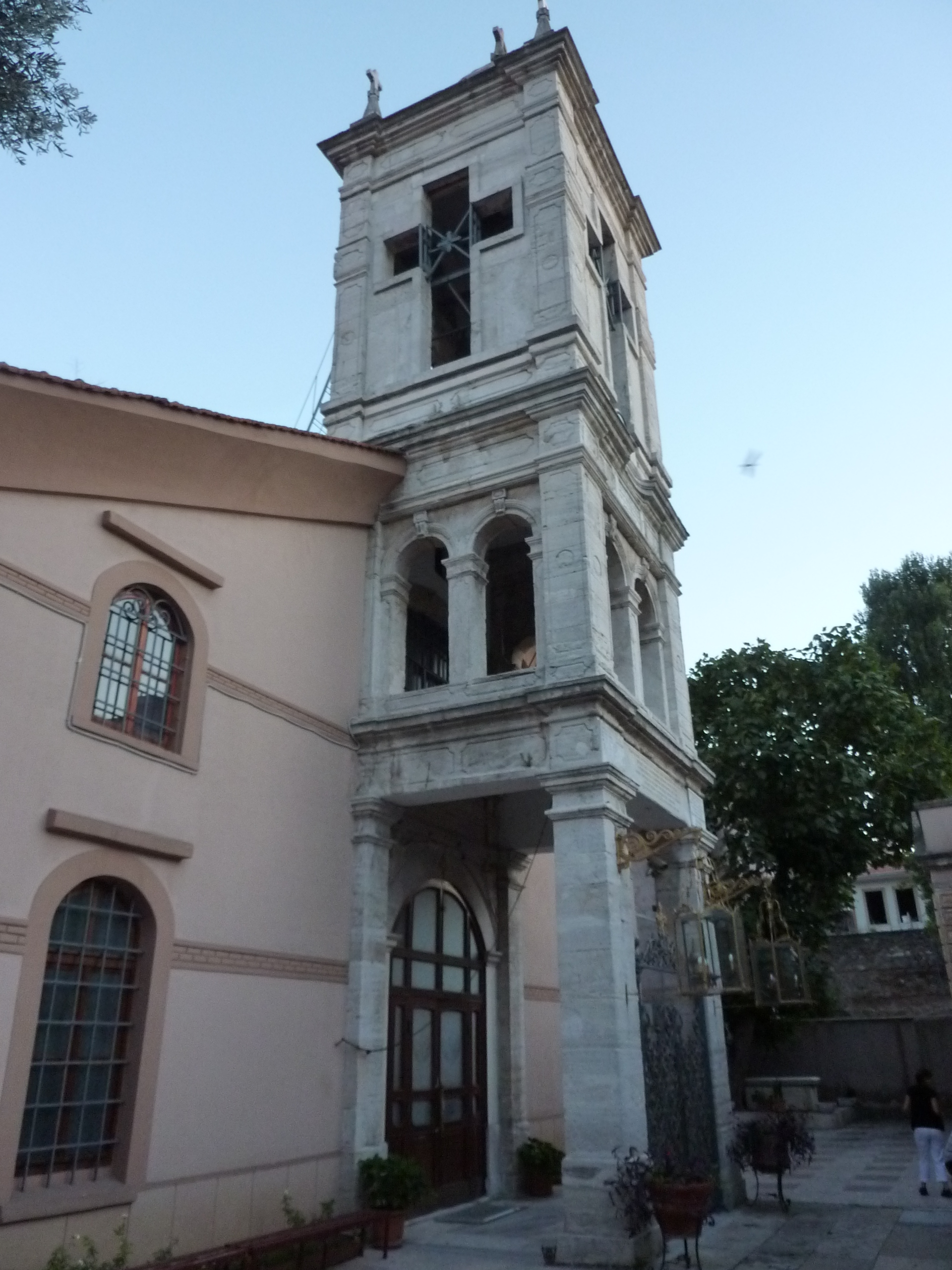 On the grounds of the Armenian Church in Istanbul.